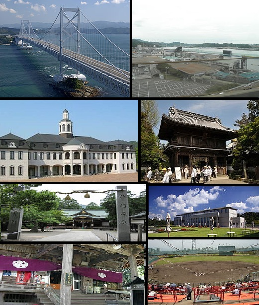 Naruto montege